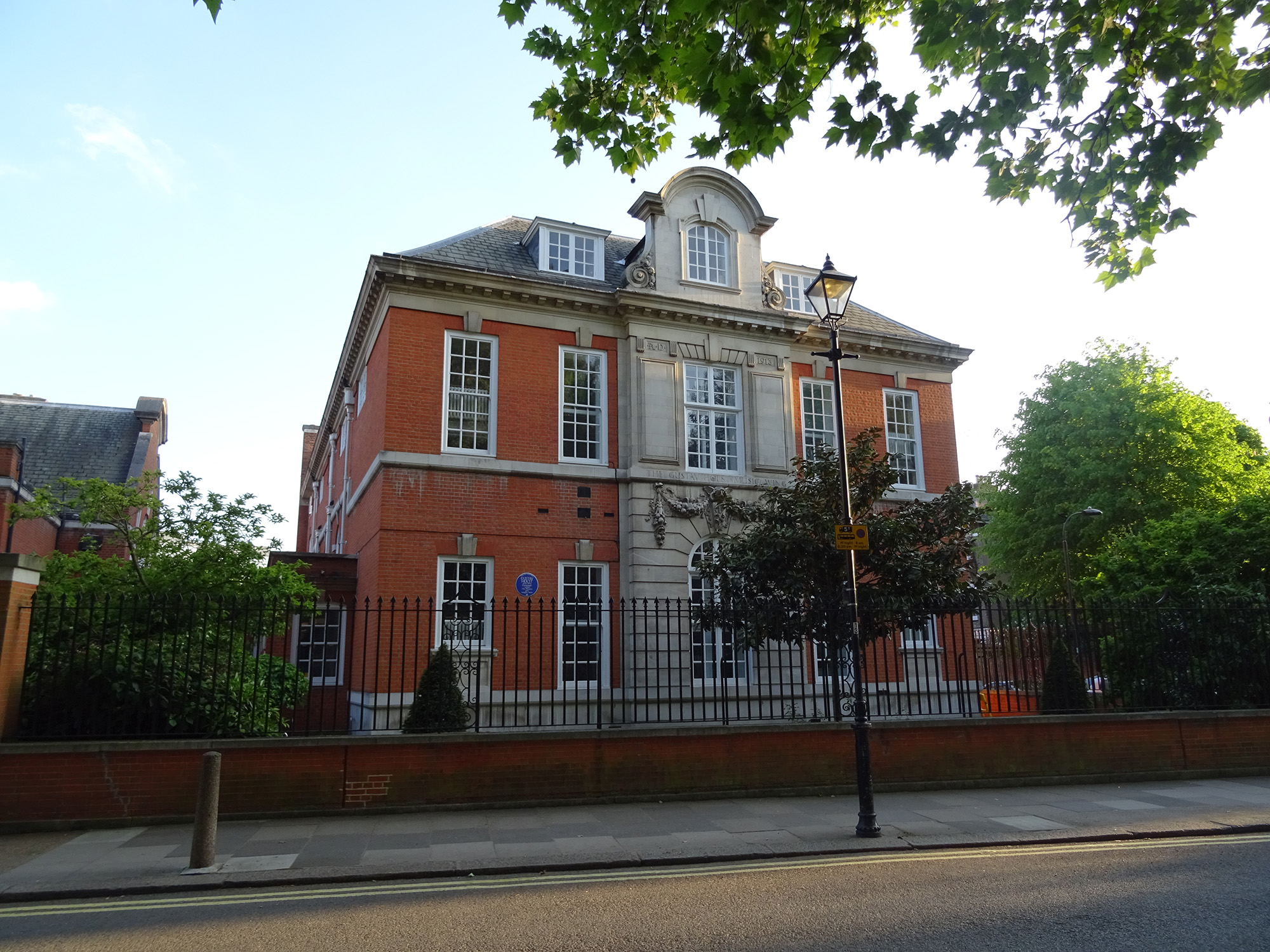 "Gustav Holst 1874-1934 Composer wrote The Planets and taught here" - St Paul's Girls' School, Brook Green, London, W6 7BS, London Borough of Hammersmith and Fulham